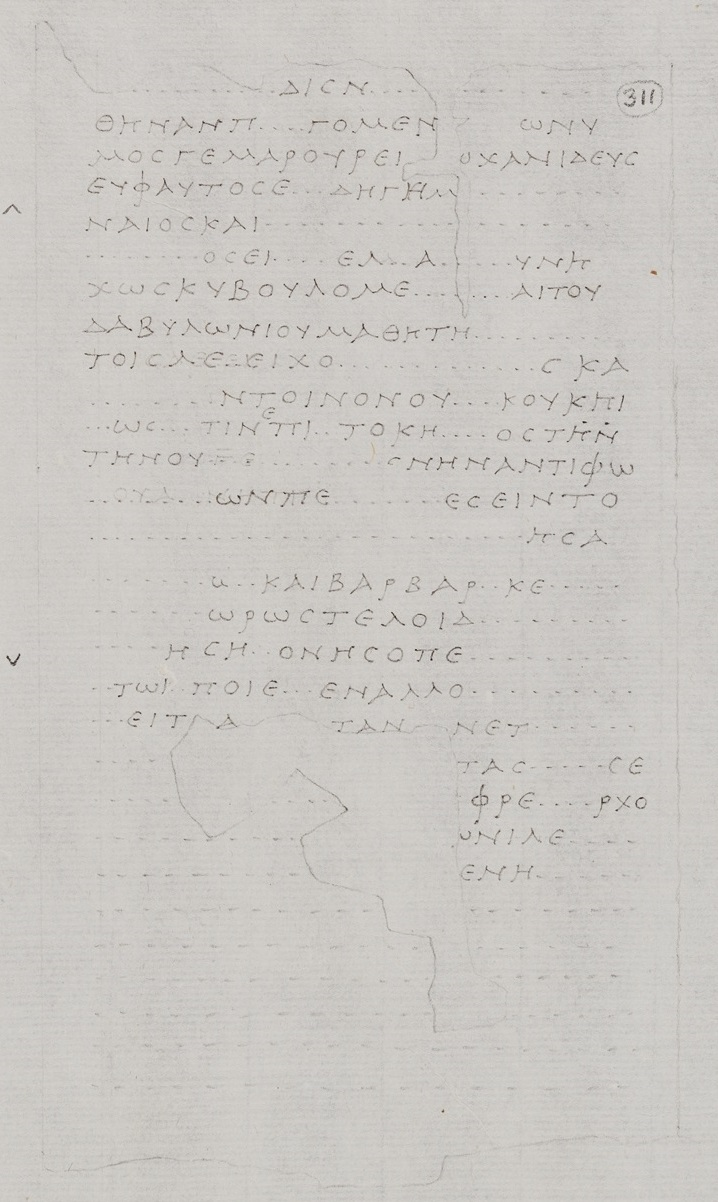 De Stoicis, 339 col. 8